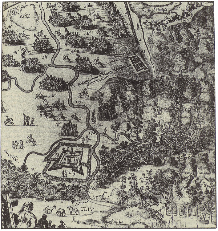 The fighting at Smolensk in the years 1632-1634. Fragments of an engraving "The plan of the siege of Smolensk." Danzig. 1636